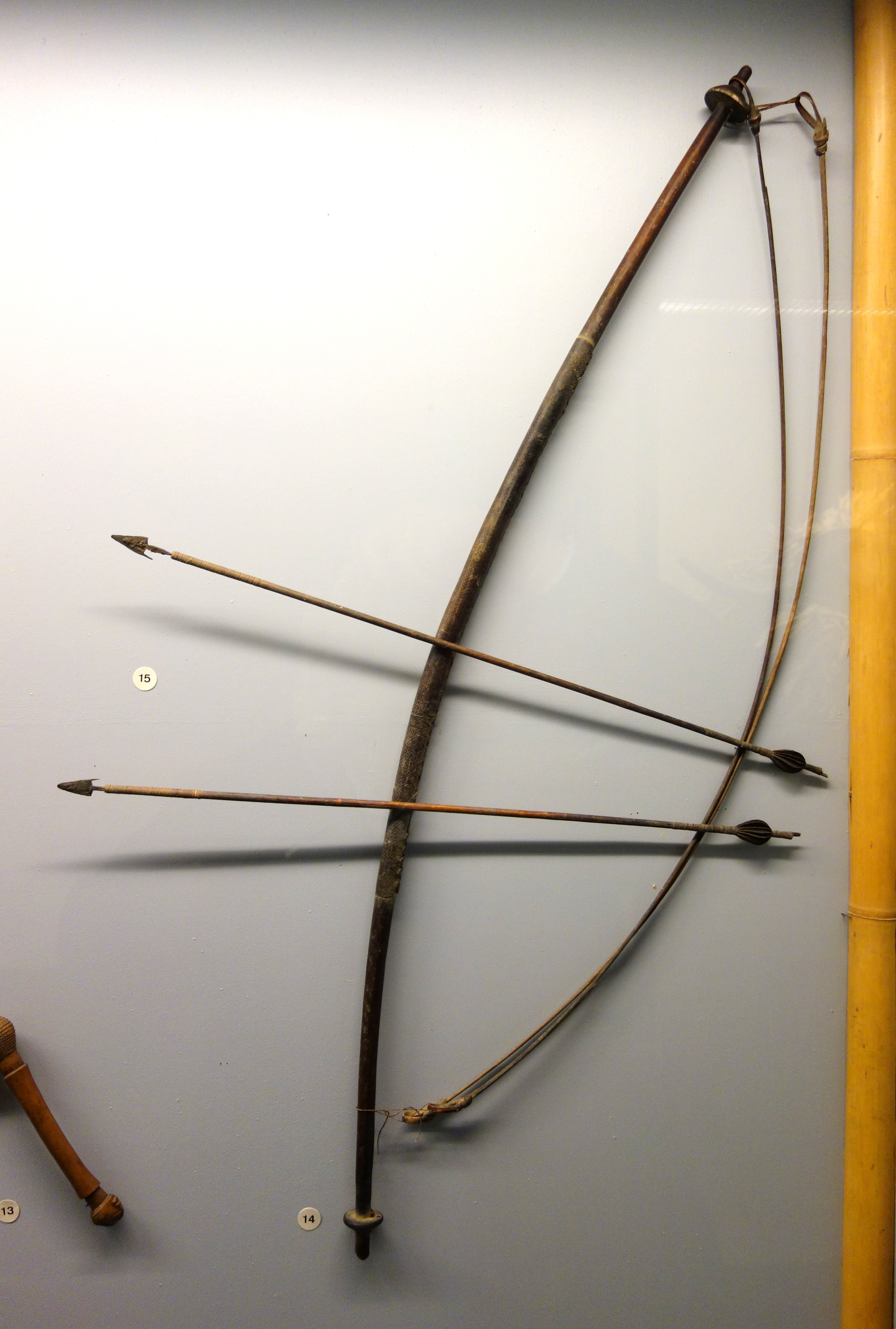 Exhibit in the Royal Museum for Central Africa, Tervuren, Belgium. This object is old enough so that it is in the public domain.